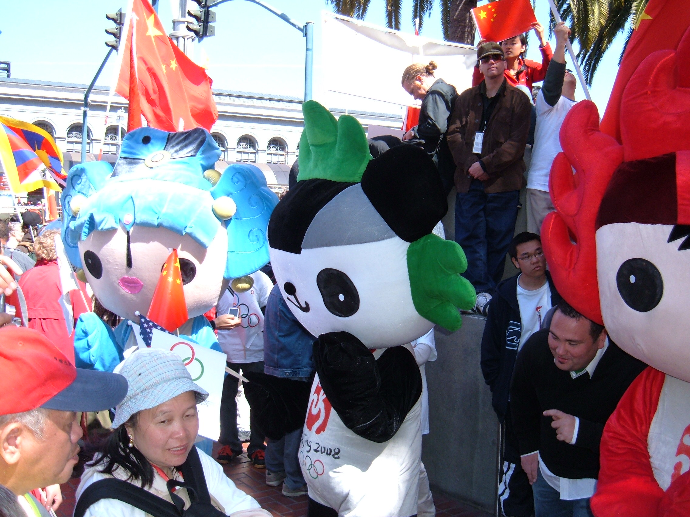 Costumed Fuwa at Justin Herman Plaza during the 2008 Summer Olympics torch relay in San Francisco. For an explanation and additional photos of my experience during the relay please see User:BrokenSphere/Gallery/San Francisco Bay Area/San Francisco/2008 Olympic Torch Relay.